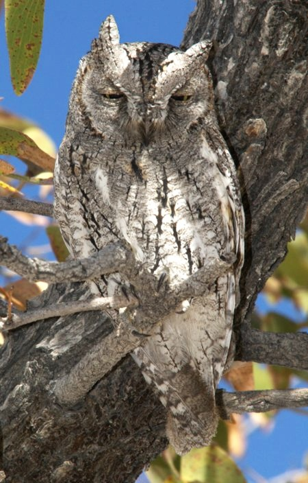 The tiny African Scops Owl sitting in a Mopani tree in Namibia's Etosha National Park. For more on birding and nature in Namibia, visit my blog, Frantic Naturalist.